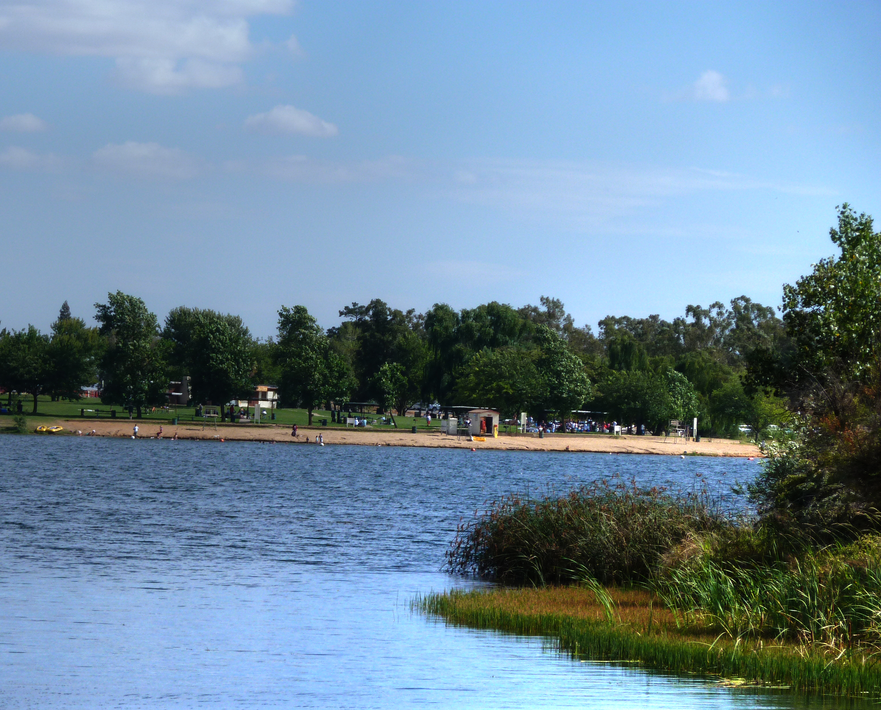 Photo of swimming area at Rancho Seco Lake